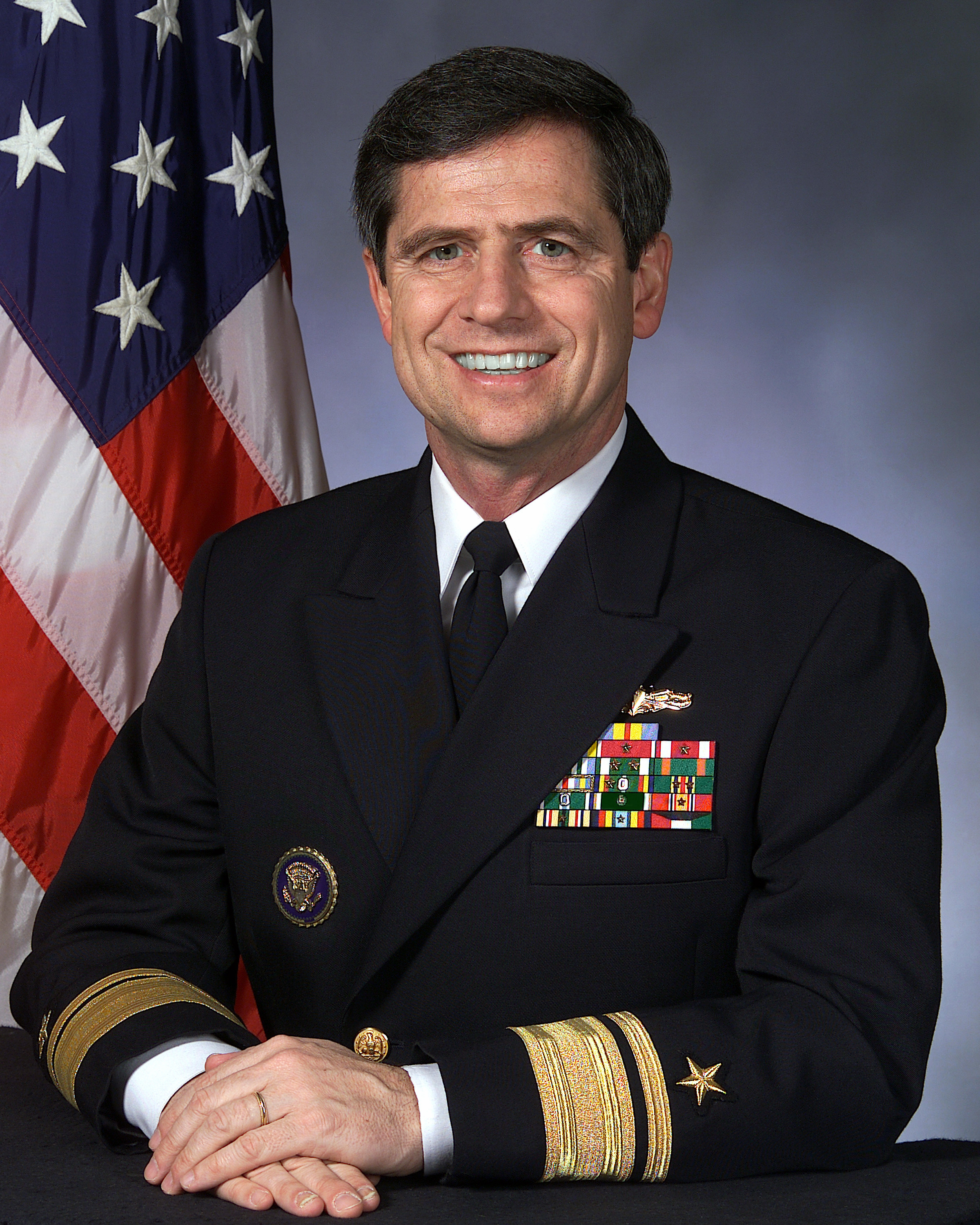 Rear Admiral (Upper Half) Joseph A. Sestak (uncovered)